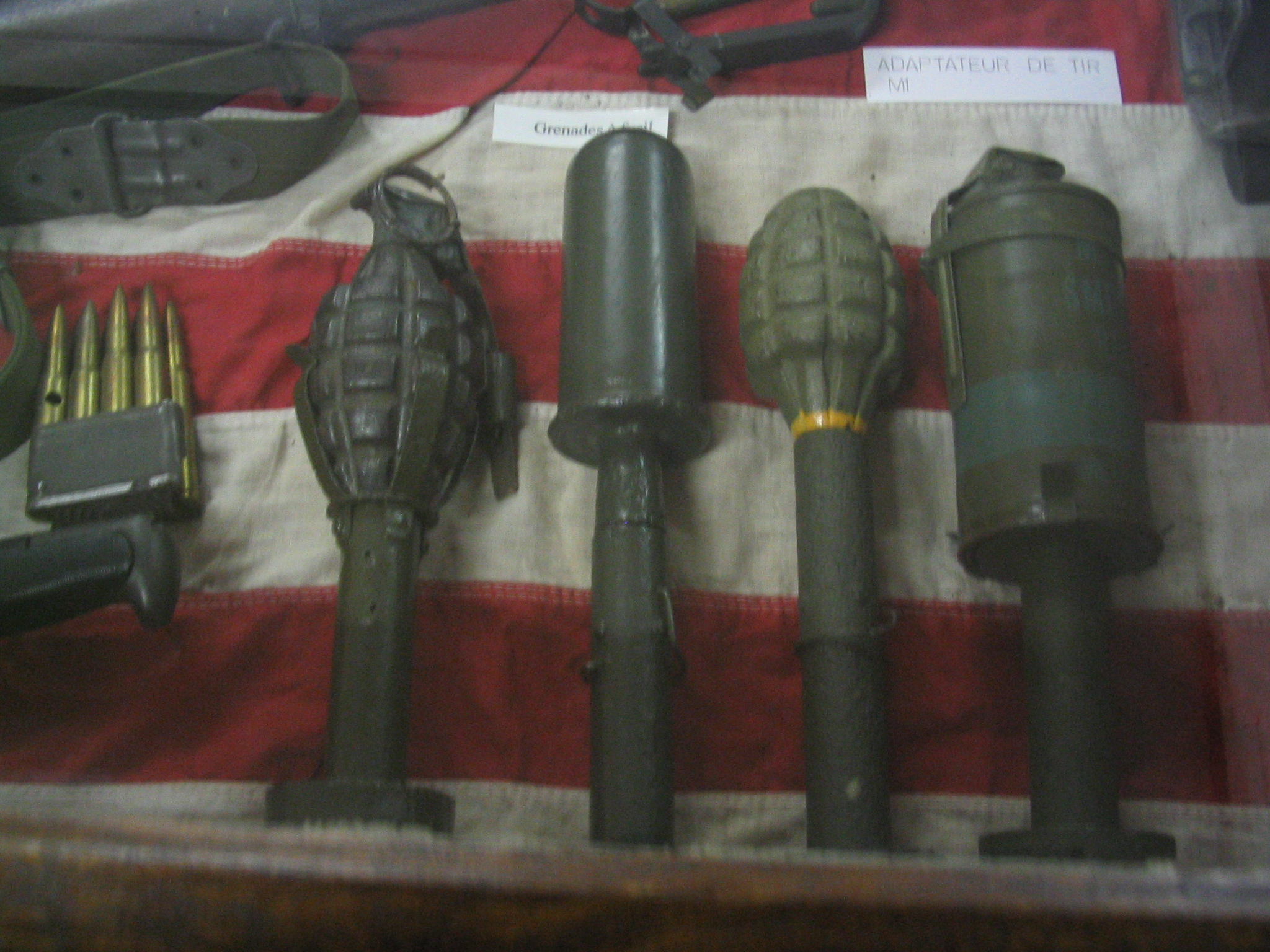 American rifle grenades from the Battle of the Bulge. (From Left to Right): M1 Grenade Adapter with Mk.2 Fragmentation Grenade, M22 Smoke Rifle Grenade with Impact fuze (unknown smoke color, possibly Green - munition was repainted low-visibility Olive Green #7 and lacks a color identification band on the warhead), M17 Fragmentation Rifle Grenade with Impact-fuze, M2 Grenade Adapter with AN/M8 Smoke Grenade (Red). Above them is a partial view of what is probably an M1 Garand Rifle and an unmounted M7 Grenade Launcher (for mounting on the M1 Rifle). Off to the left side is an 8-round Mannlicher-type en-bloc ammunition clip (fully loaded with inert .30-06 Dummy rounds) and the hilt of an M1 Bayonet, both for use with the M1 Garand Rifle.